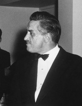 Merriman "Smitty" Smith, dean of the White House press corps and United Press International (UPI) reporter, at the White House Correspondents and News Photographers Dinner. Garden Foyer, Sheraton Park Hotel, Washington, D.C.